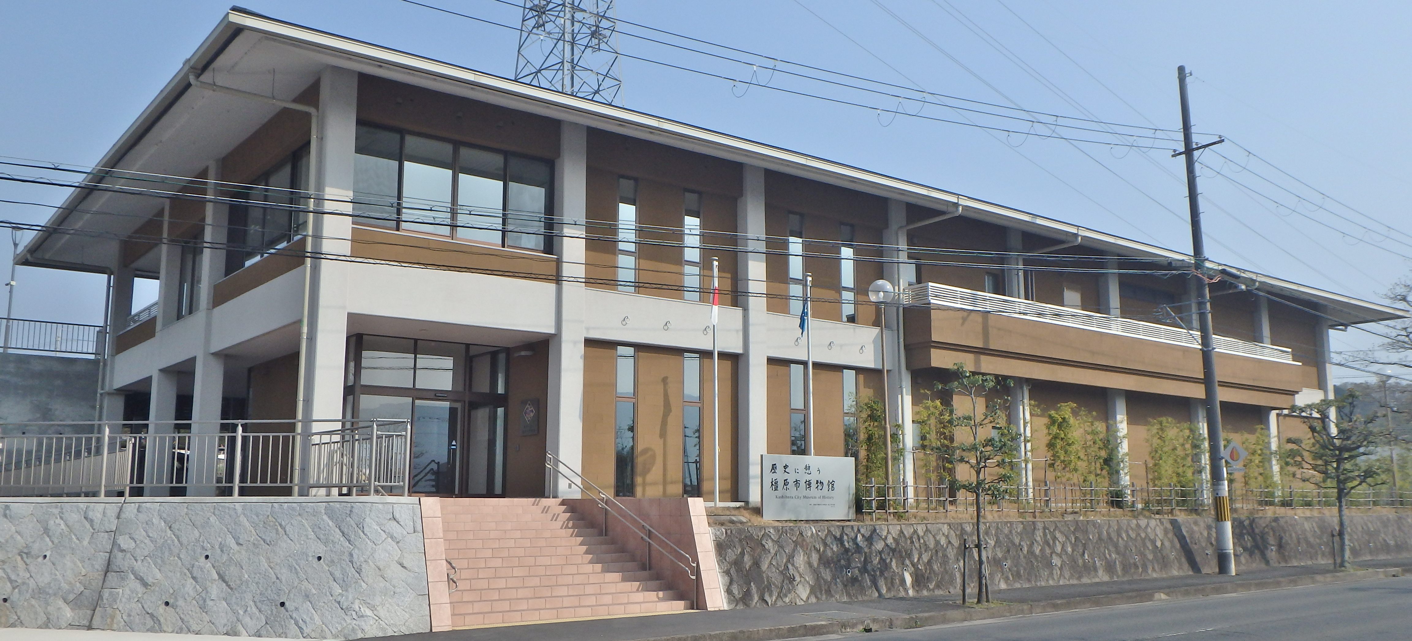 Kashihara city Museum of History, Nara Prefecture,Japan